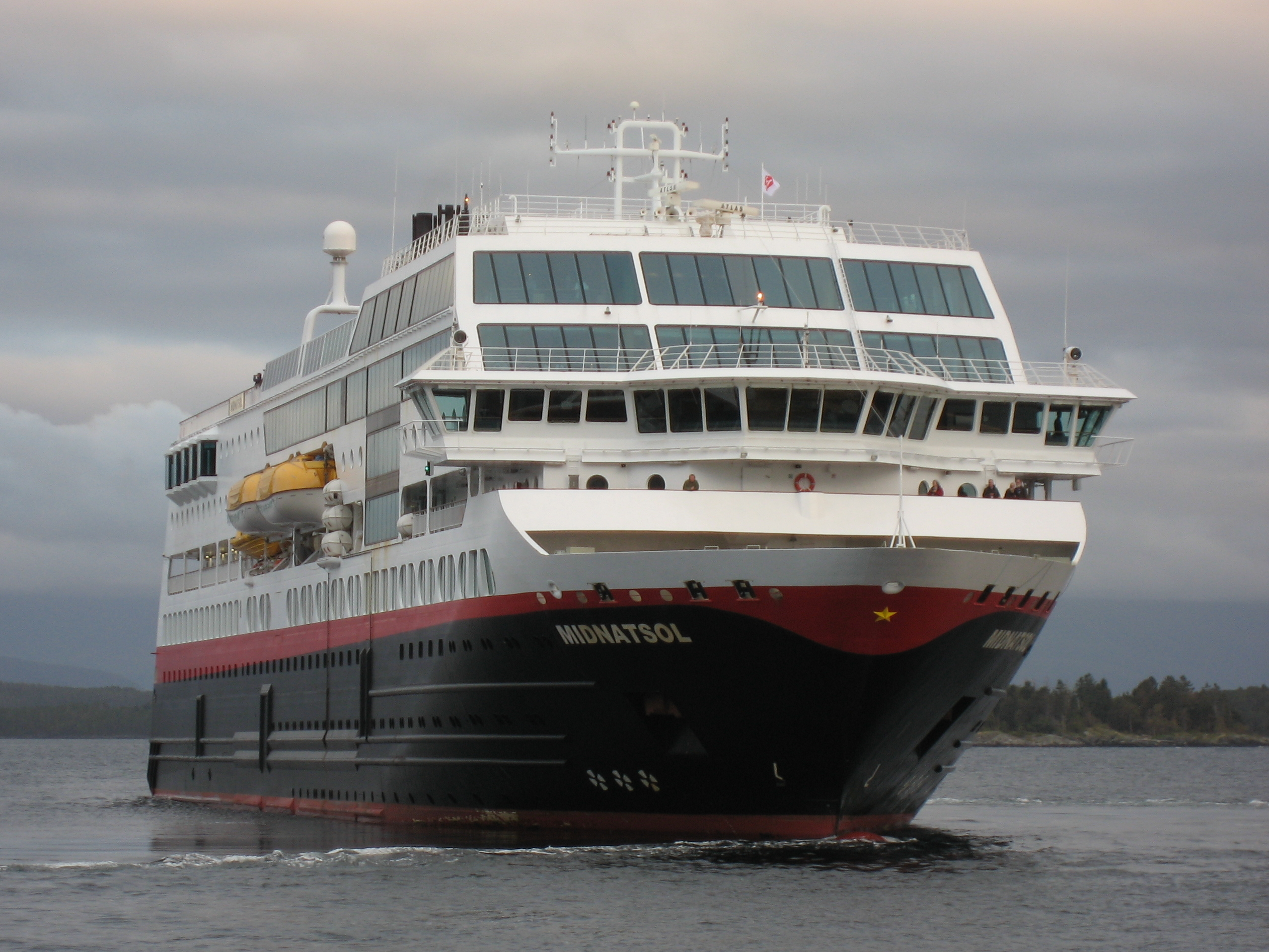 Norwegian coastal express ship (hurtigruten) MS Midnatsol